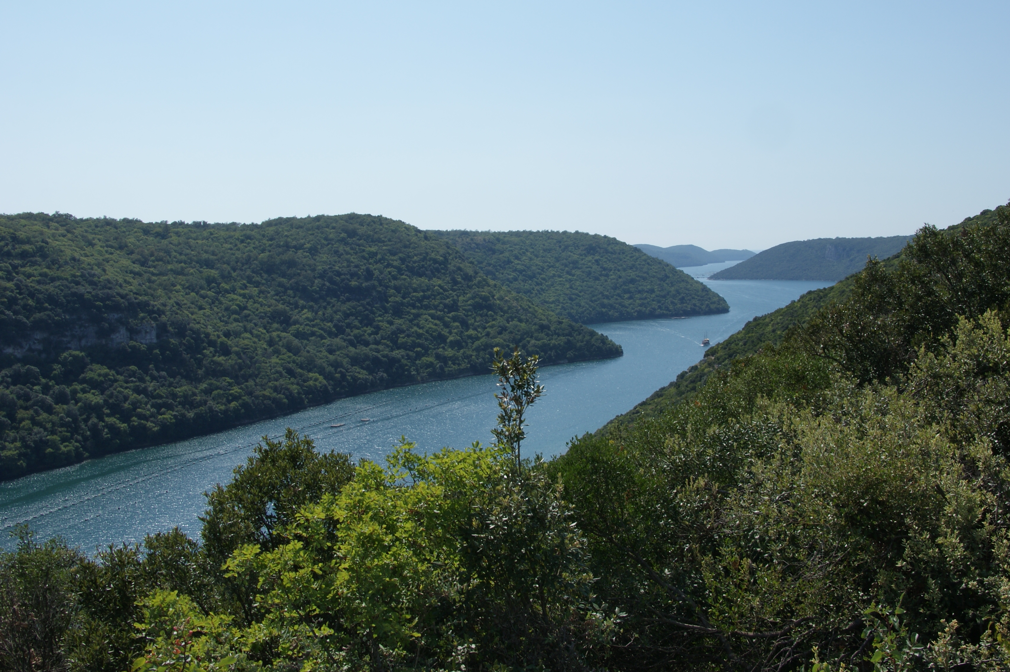 Lim bay, Istria